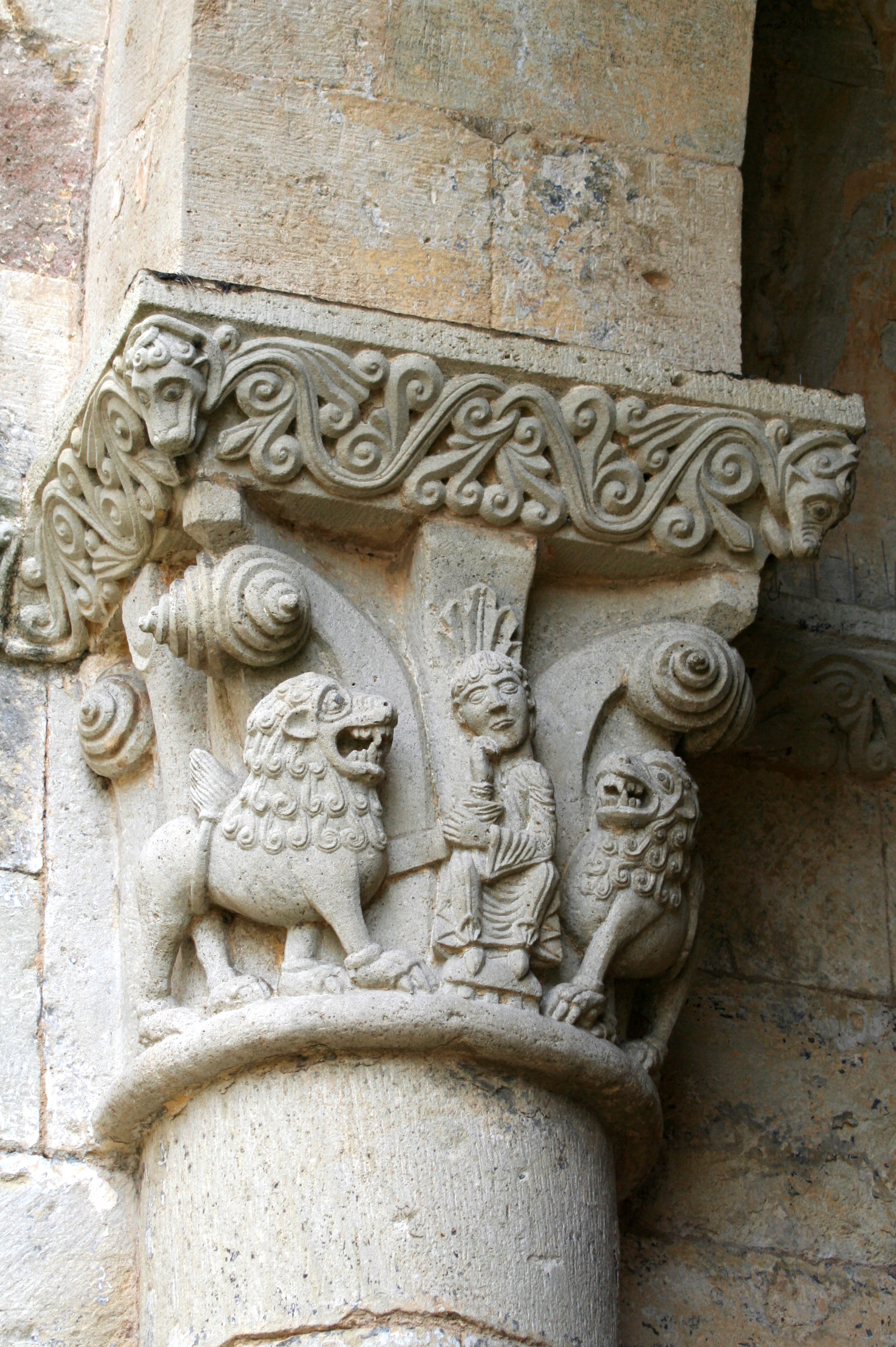 Grande-Sauve Abbey (33) Daniel in the Lions' Den, early 12th century date QS:P,+1150-00-00T00:00:00Z/7